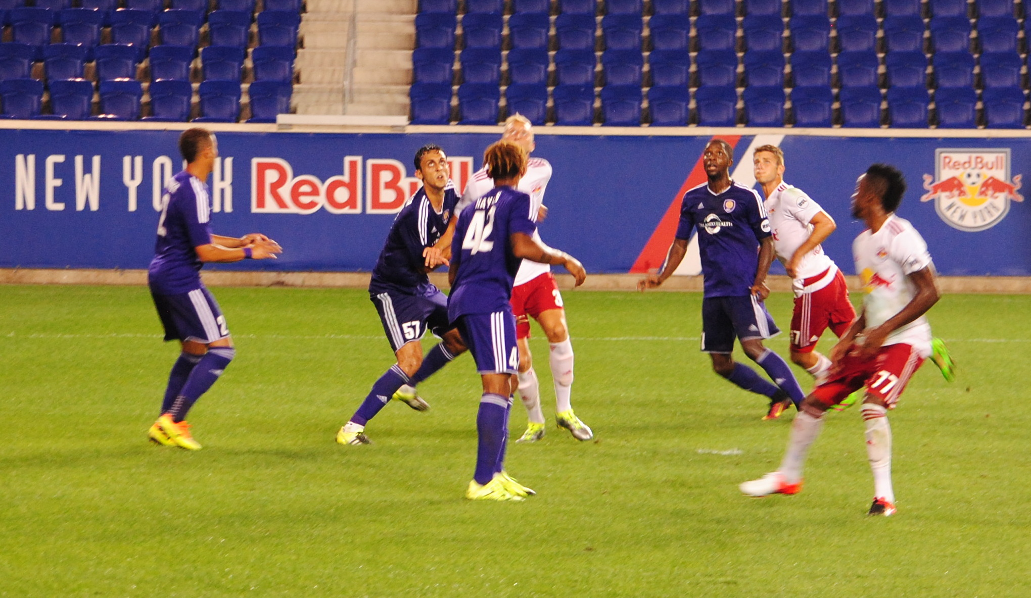 NYRB II vs. Orlando City B